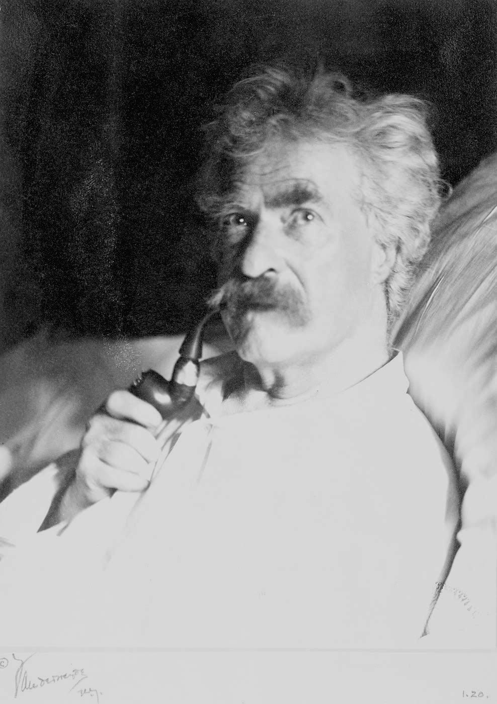 Mark Twain with pipe